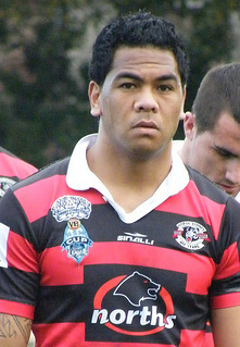 Cropped image of North Sydney winger John Tamanika